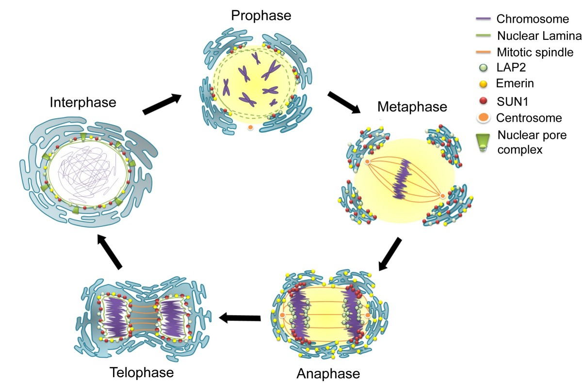 Nuclear envelope breakdown and reassembly in mitosis. At the end of G2, the activation of cyclin-dependent kinases, including CDK1, triggers entry into mitotic prophase. The nuclear membrane breaks down, and the NE-associate proteins either translocate to kinetochores, distribute with the fragmented ER networks, or dissolve in the cytoplasm. During NE reassembly in anaphase, SUN1 and LAP2 first appear around the condensed chromatin, though at different regions. The nuclear lamins then join the nuclear periphery in telophase. This figure illustrates the important roles played by the NE and the nuclear lamina in normal mitosis. Chi et al. Journal of Biomedical Science 2009 16:96